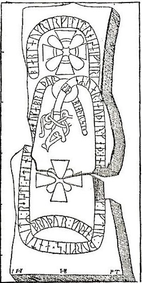 Drawing of runestone Sö 287 in Hunhammar, Botkyrka parish. Now missing.